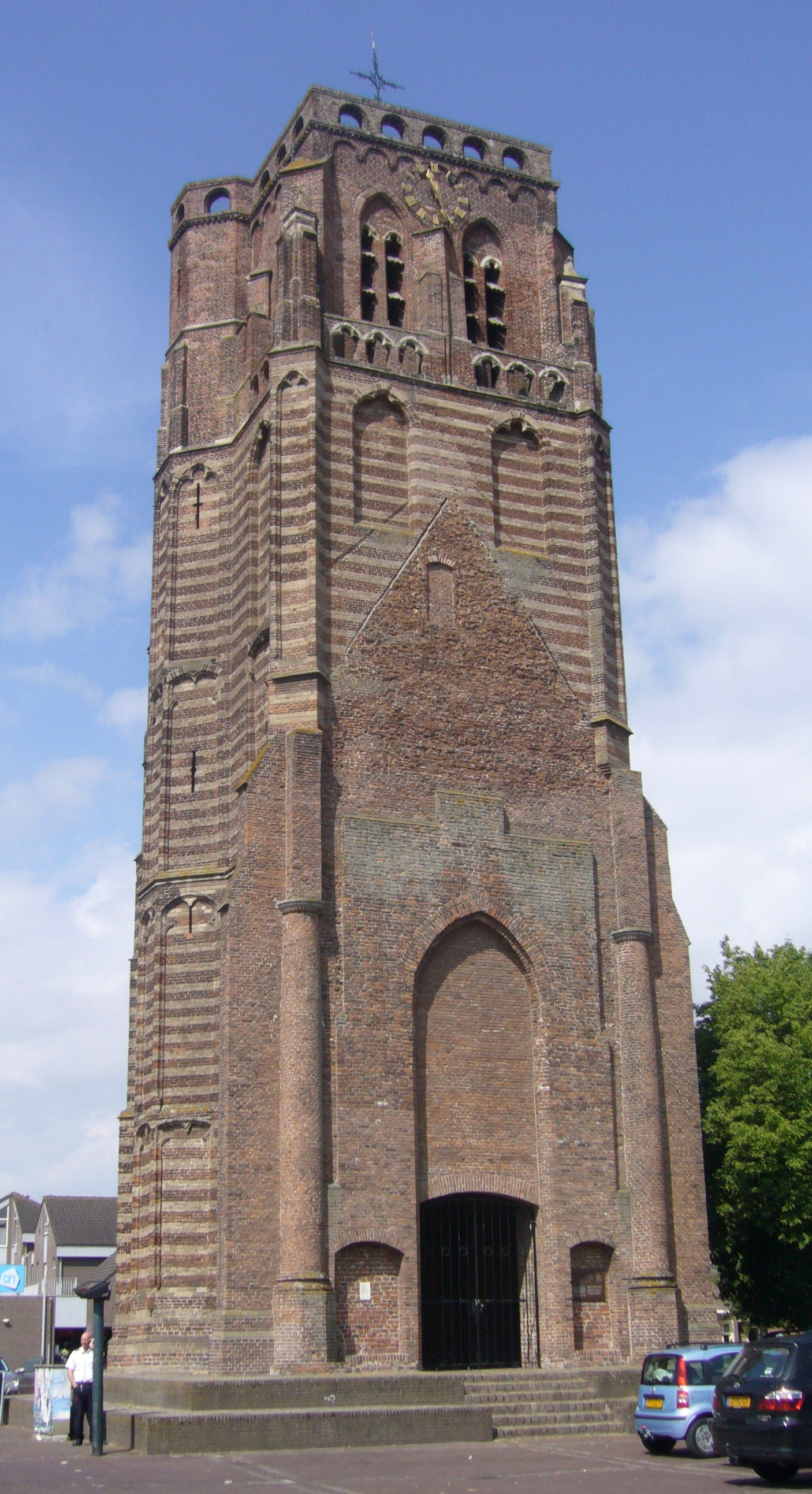 Church in St Michielsgestel in The Netherlands